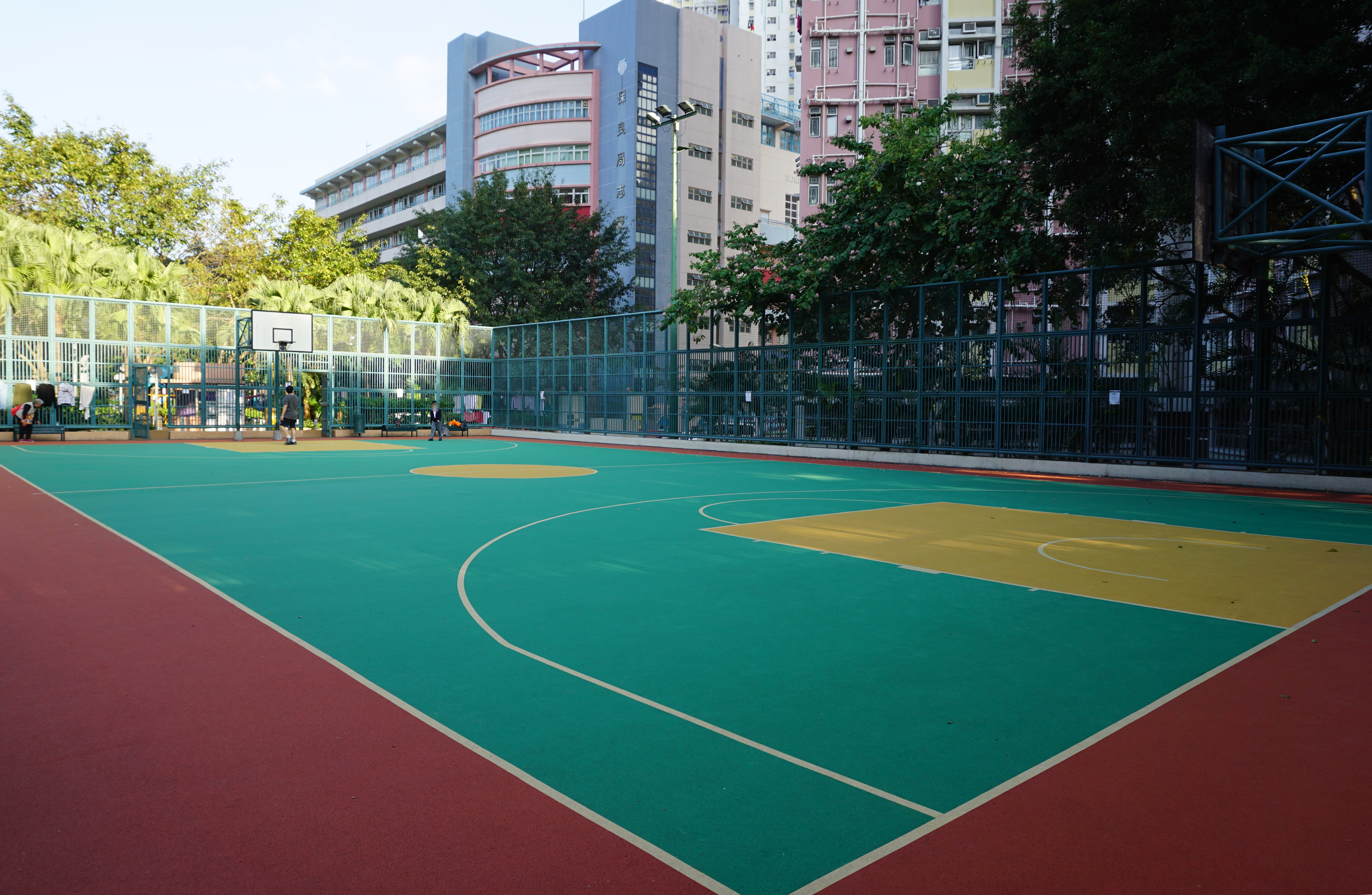 Po Tin Estate in Tuen Mun, Hong Kong.